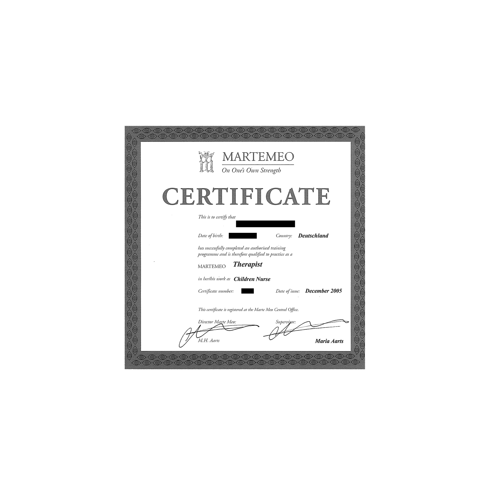 An original Marte Meo certificate, issued by Maria Aarts.